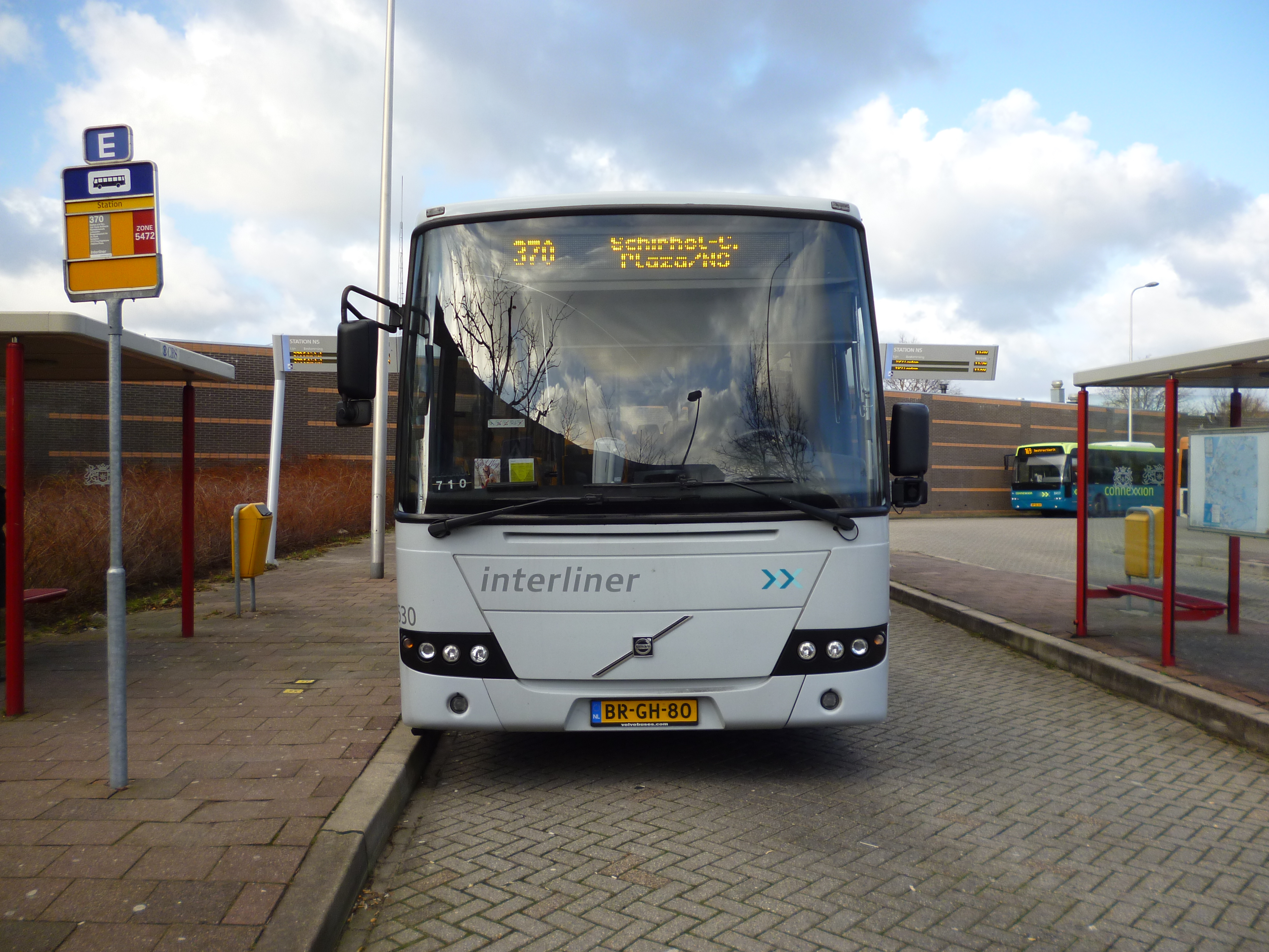 Volvo 8700 bus (reg. BR-GH-80) in Alphen aan den Rijn, Netherlands. Connexxion operator.